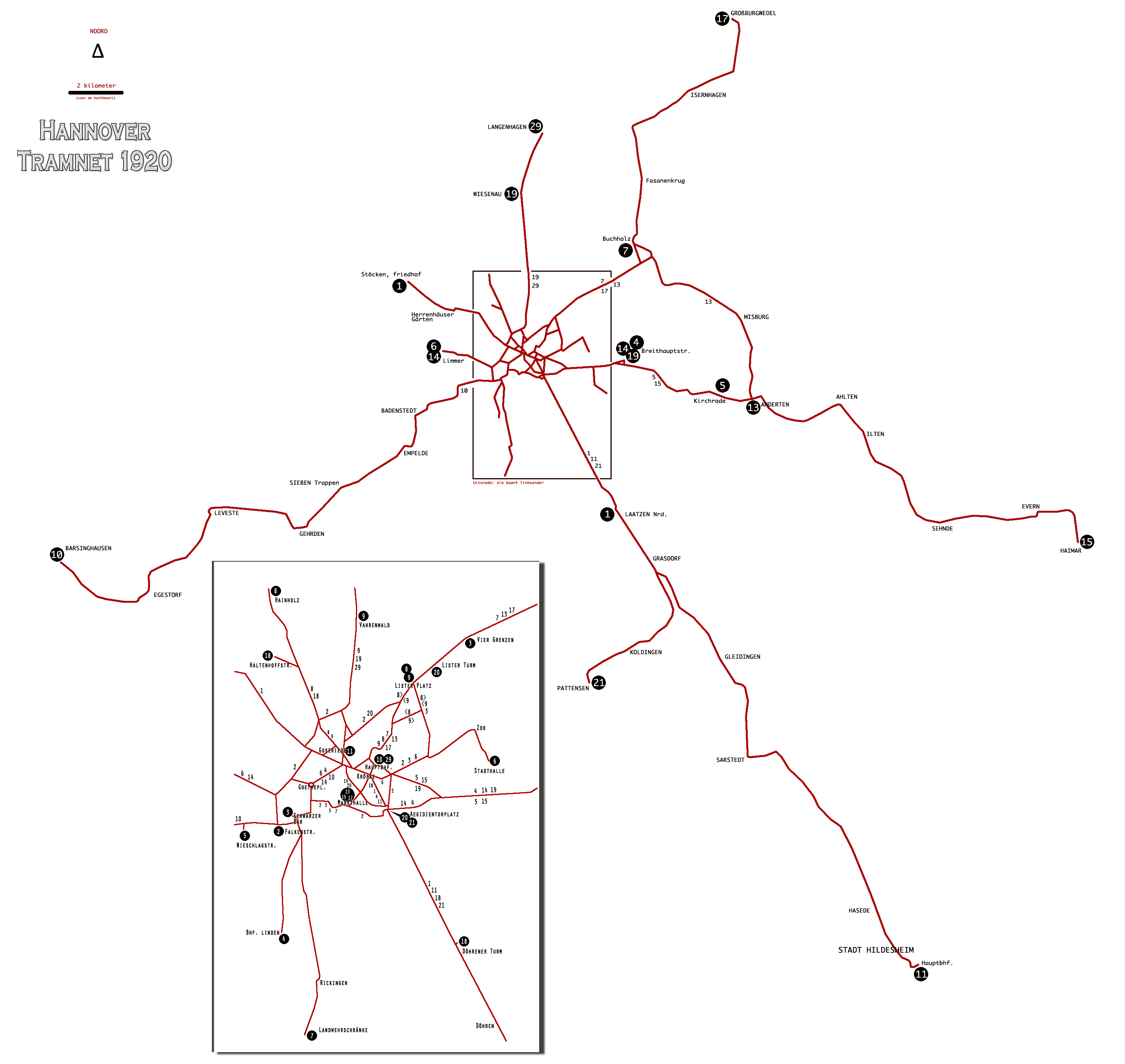 Tramway network Hannover, Germany, 1920